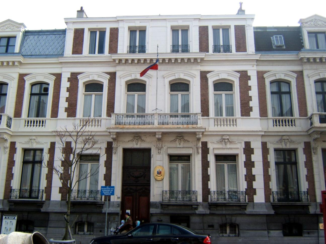 Phillipine Embassy at The Hague, the Netherlands.